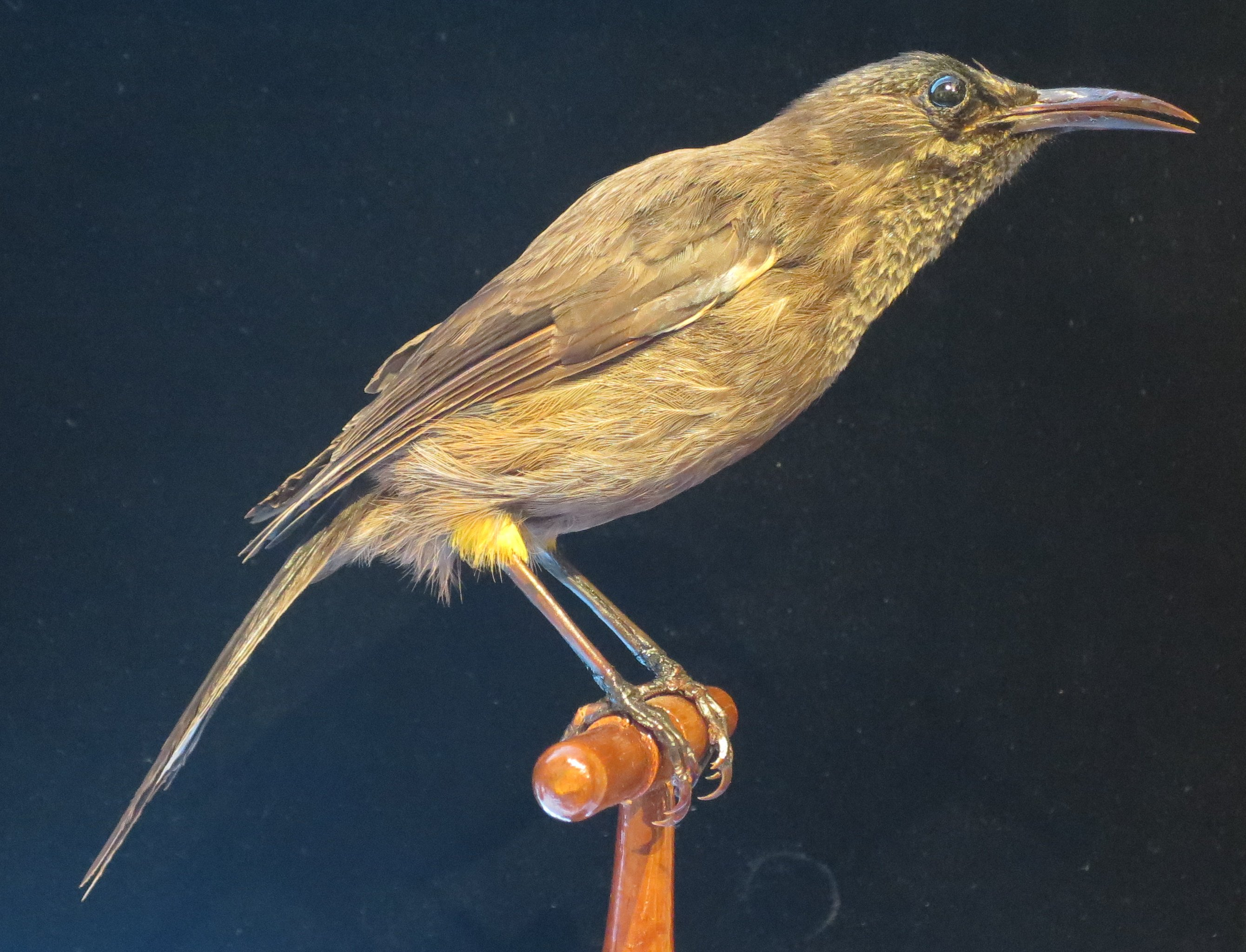 Moho braccatus Cassin, Bishop Museum, Honolulu